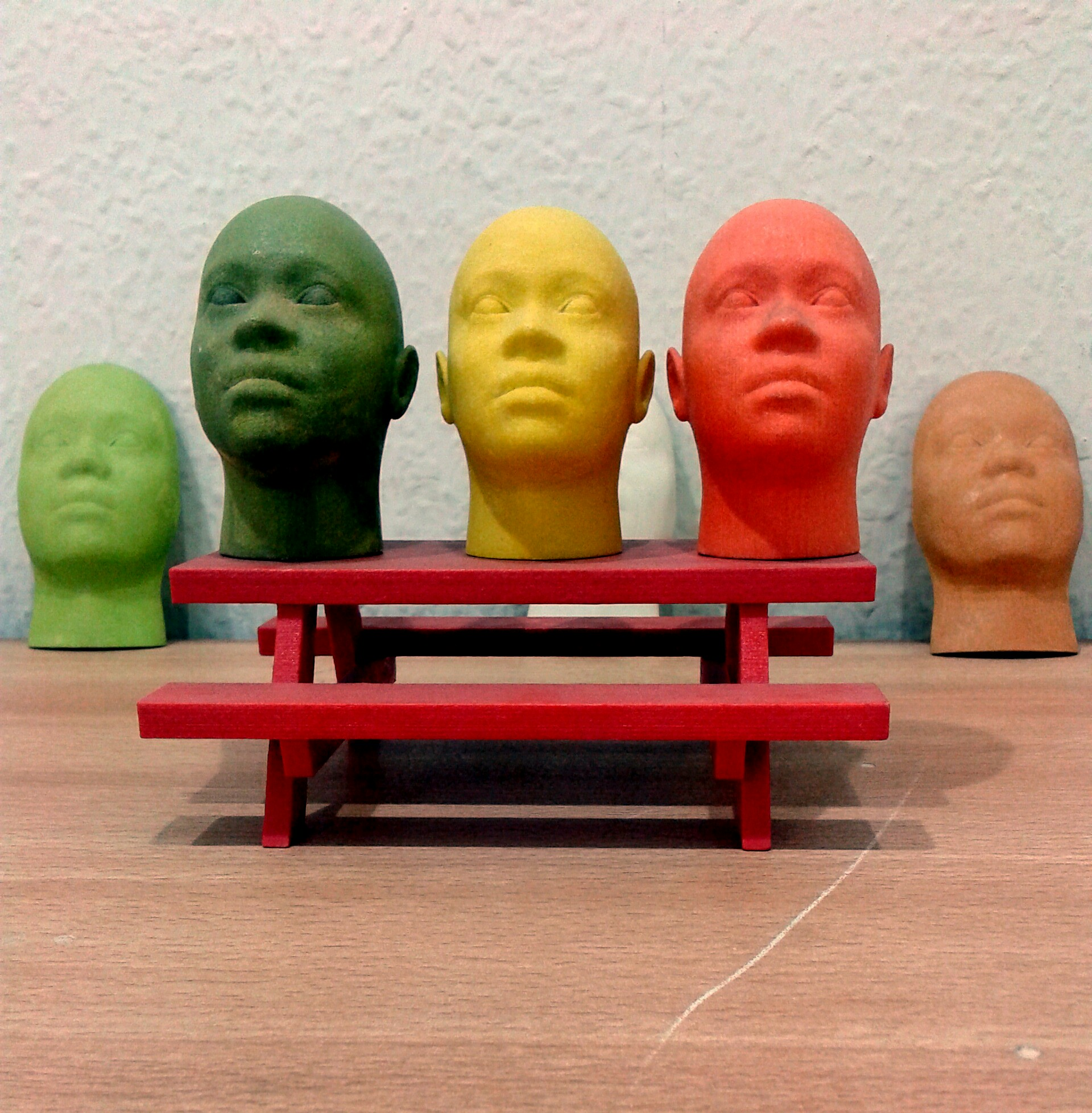 3D Printing is a type of Rapid Prototyping Process that can produce full colour 3D objects from a CAD input within hours at relatively lower costs as compared to other Rapid Prototyping technologies.